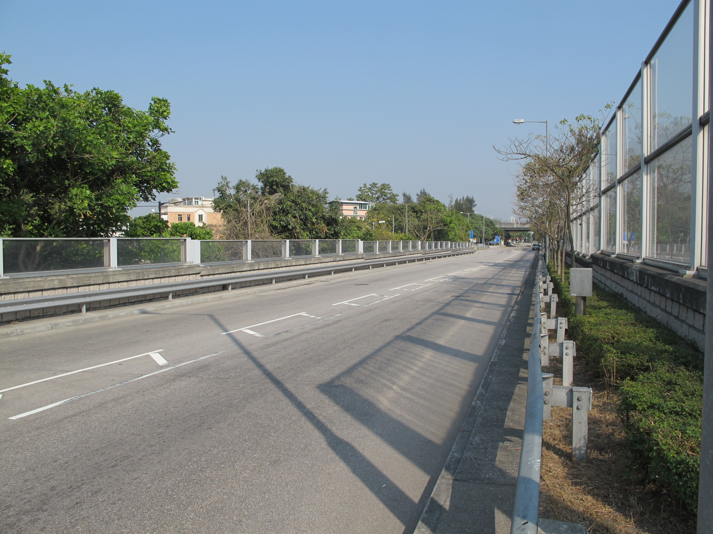 Hung Shui Kiu New Town Noise Barrier built in 2011